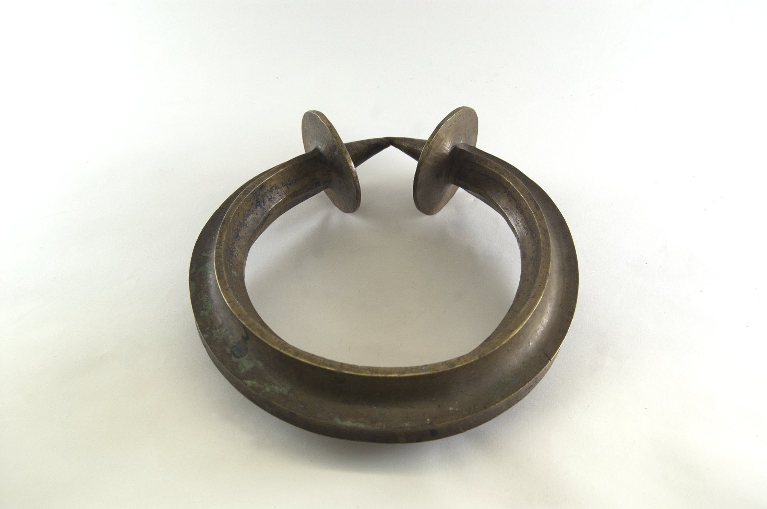 Torque (Currency)